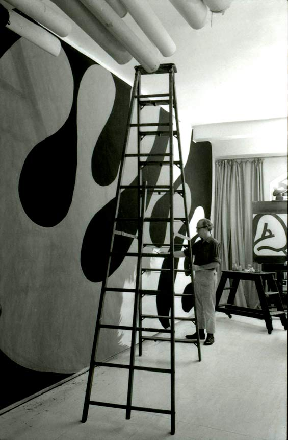 Yoors at his Waverly Place studio painting a cartoon for a tapestry now in the J.P. Morgan art collection